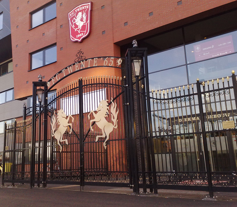 The gate of neighbor loyalty (Twents: Noaberschap)